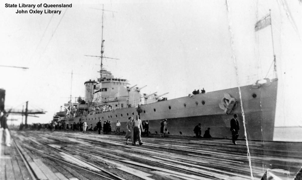 HMNZS Achilles.